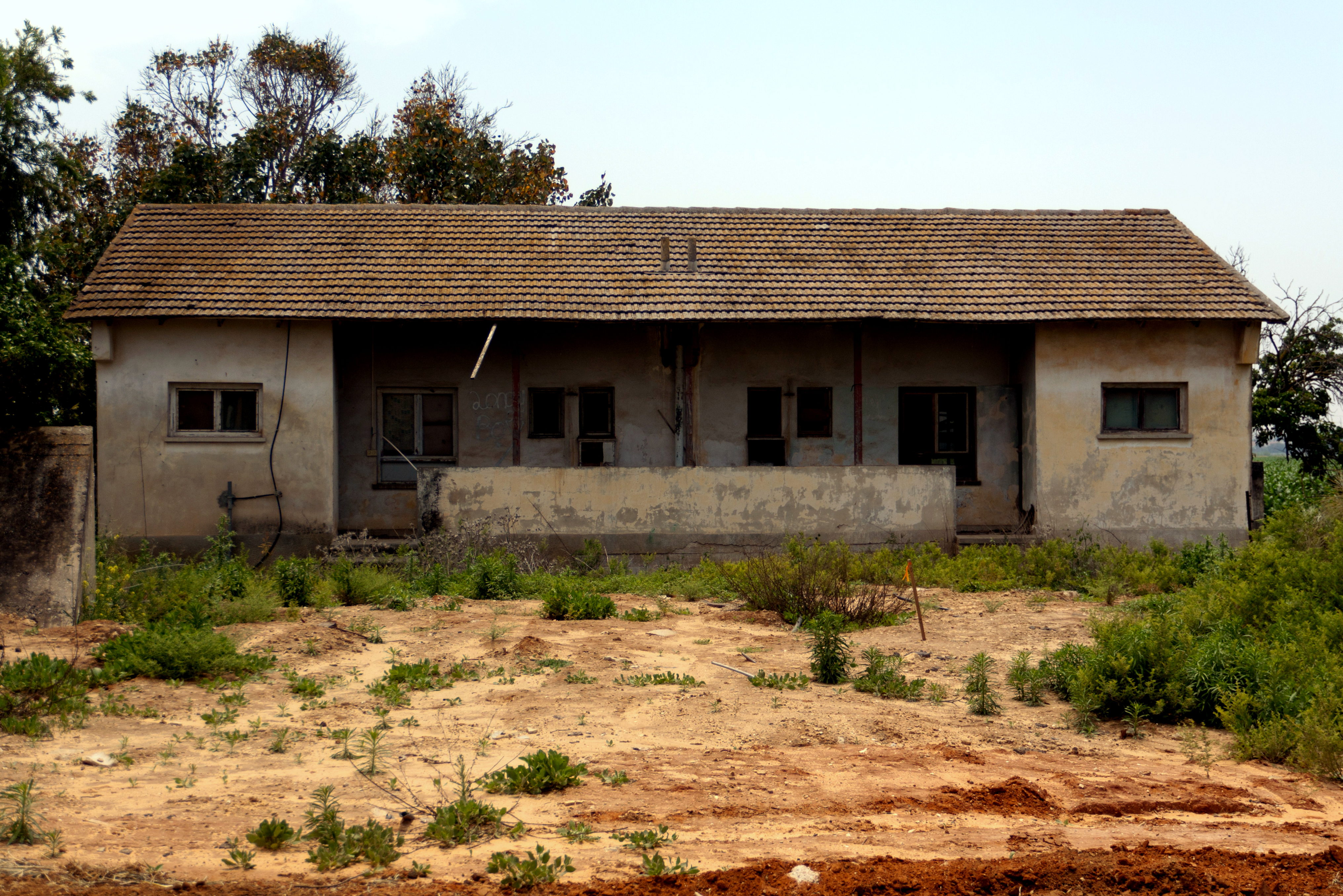 Abandoned house in Shalem Farm